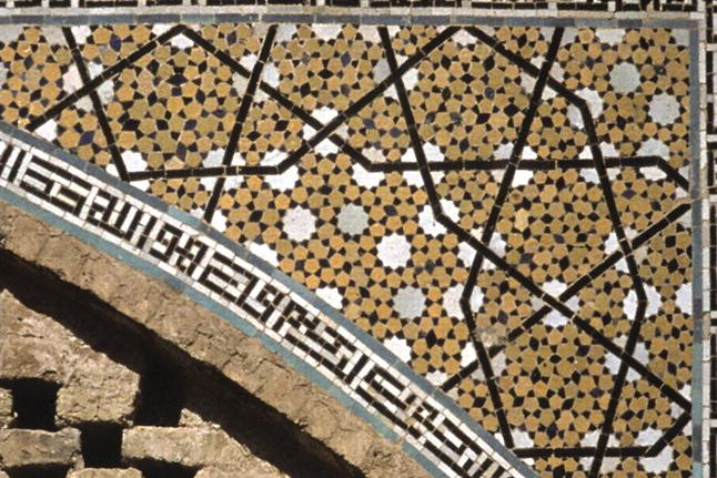 Girih-tile subdivision found in the decagonal girih pattern on a spandrel from the Darb-i Imam shrine, Isfahan, Iran (1453 C.E.). A subdivision rule to construct perfect quasi-crystalline tilings has been identified [1] The thick black lines demarcating girih tiles of decagon and bowtie shapes are subdivided into a smaller pattern, which can also be perfectly generated by a tessellation of girih tiles.